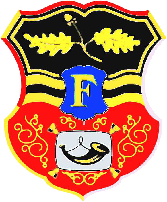 Coat of arms of Frankenburg am Hausruck, Upper Austria